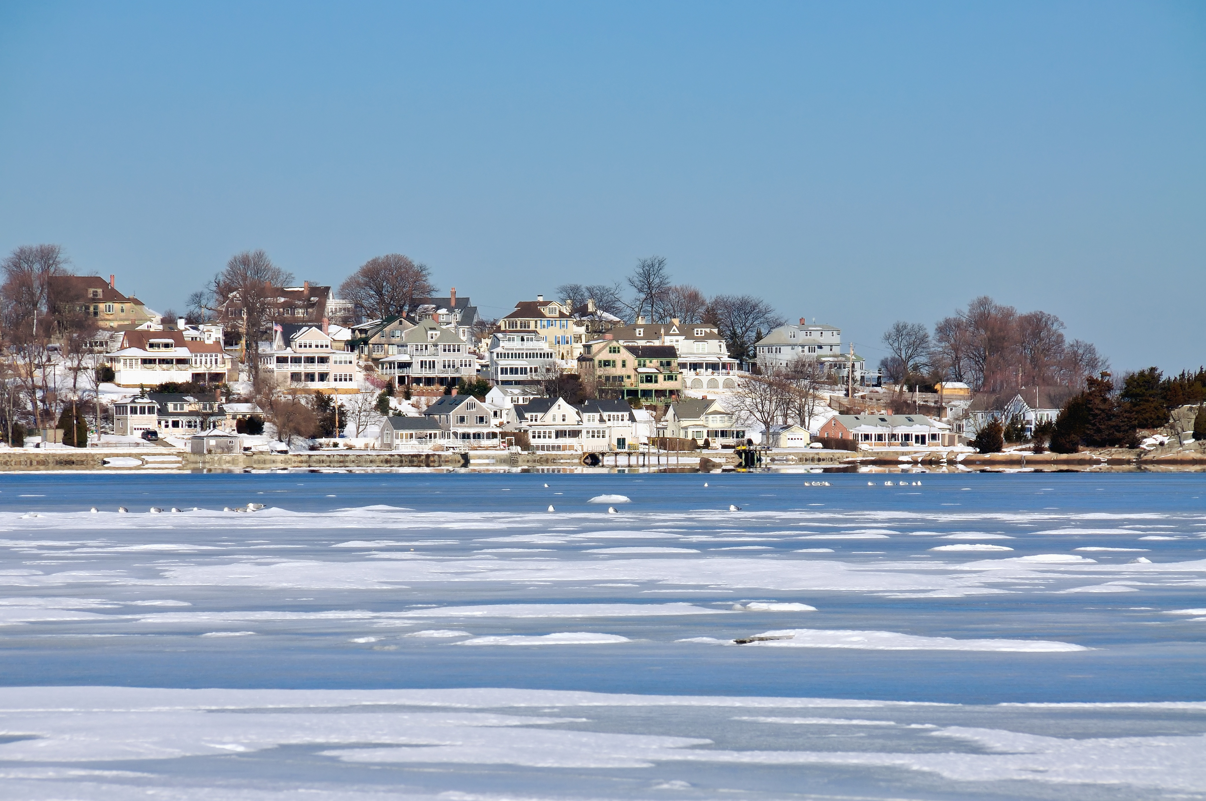 Hingham harbor view, winter, Hingham, Massachusetts